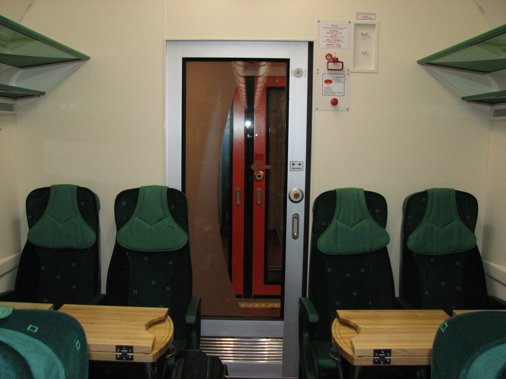 MÁV IC3 passanger coaches